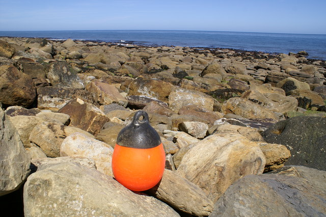 Meeting of the Myriads. OV 0000 is a unique square being the sole land representative of the OV myriad. It only just qualifies with around 10 square metres of boulders above the high tide mark. The low tide level is a good 50 metres away and well displayed in this photo. Taking an average of GPS fixes I placed a buoy on the approximate location of OV 000000 which marks the intersection of the four myriads OV, TA, SE and NZ. Each of these has a different first letter because each belongs to a different 500 kilometre square. OV 000000 is the only point in the UK where four such giant myriads intersect.